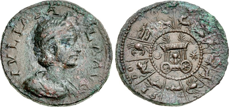 PHOENICIA, Sidon. Julia Paula. Augusta, AD 219-220. Æ (30mm, 16.07 g, 6h). IVLIA PA-VLA AVG, draped bust right, wearing stephane / Cart of Astarte containing baetyl within center of zodiacal wheel; around, CO - [AV-R P-IA ME-TR?] - SI-DO divided by registers. Rouvier 1571; BMC - (but cf. 10 for rev. type on coin of Elagabalus). Good VF, mottled red, green, and brown patina, obverse corrosion. Rare astrological type.